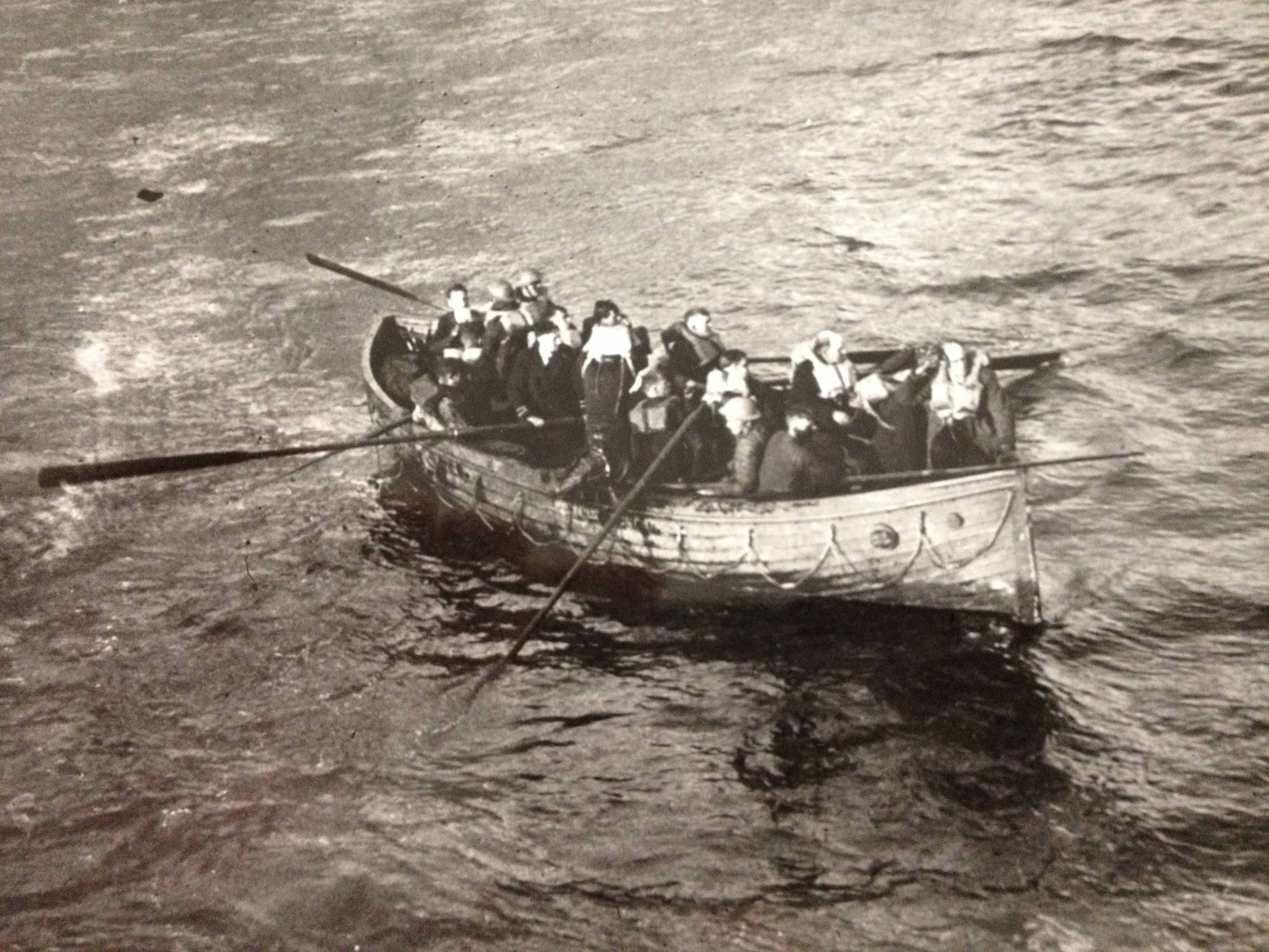 Survivors from Mona's Queen, pictured from the destroyer HMS Vanquisher after the sinking of the vessel on the approach to Dunkirk.